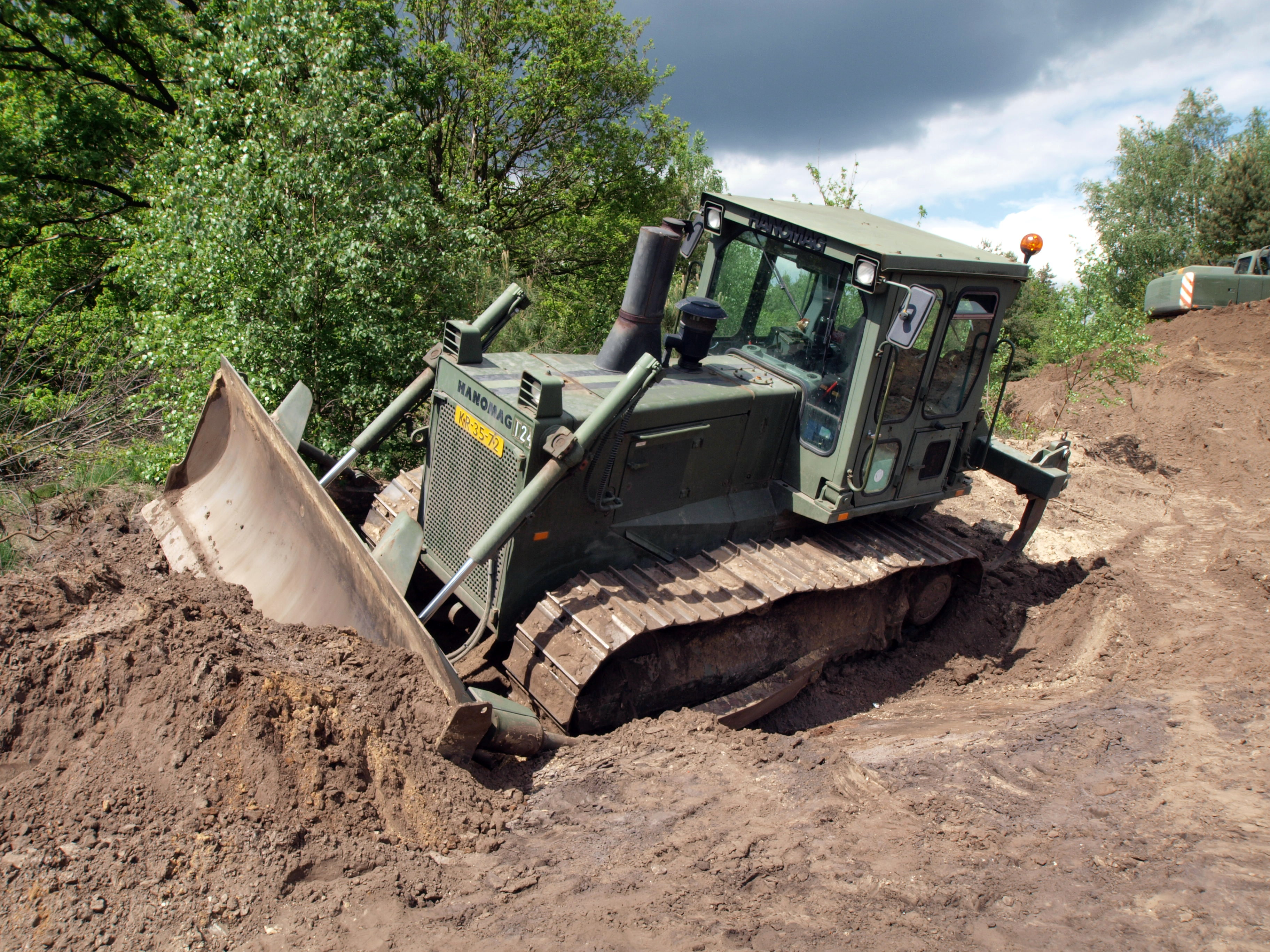 Photographed at the Open house / Open door Landmachtdagen 2012 in Oirschot the Netherlands. Royal Dutch Army Hanomag